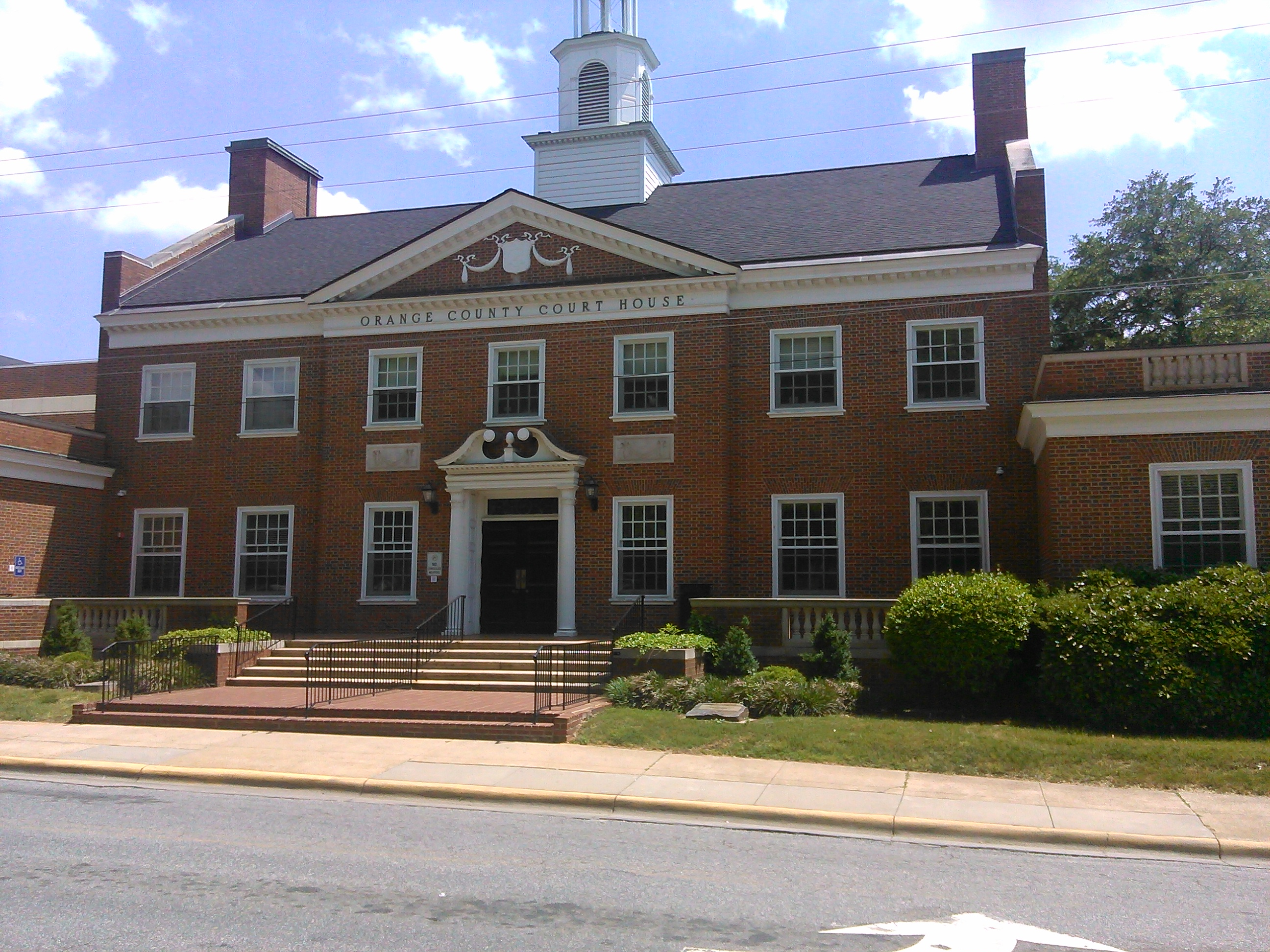 Orange County Courthouse in North Carolina